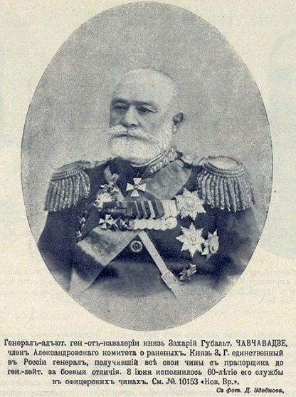 Illustration of general Chavchavadze